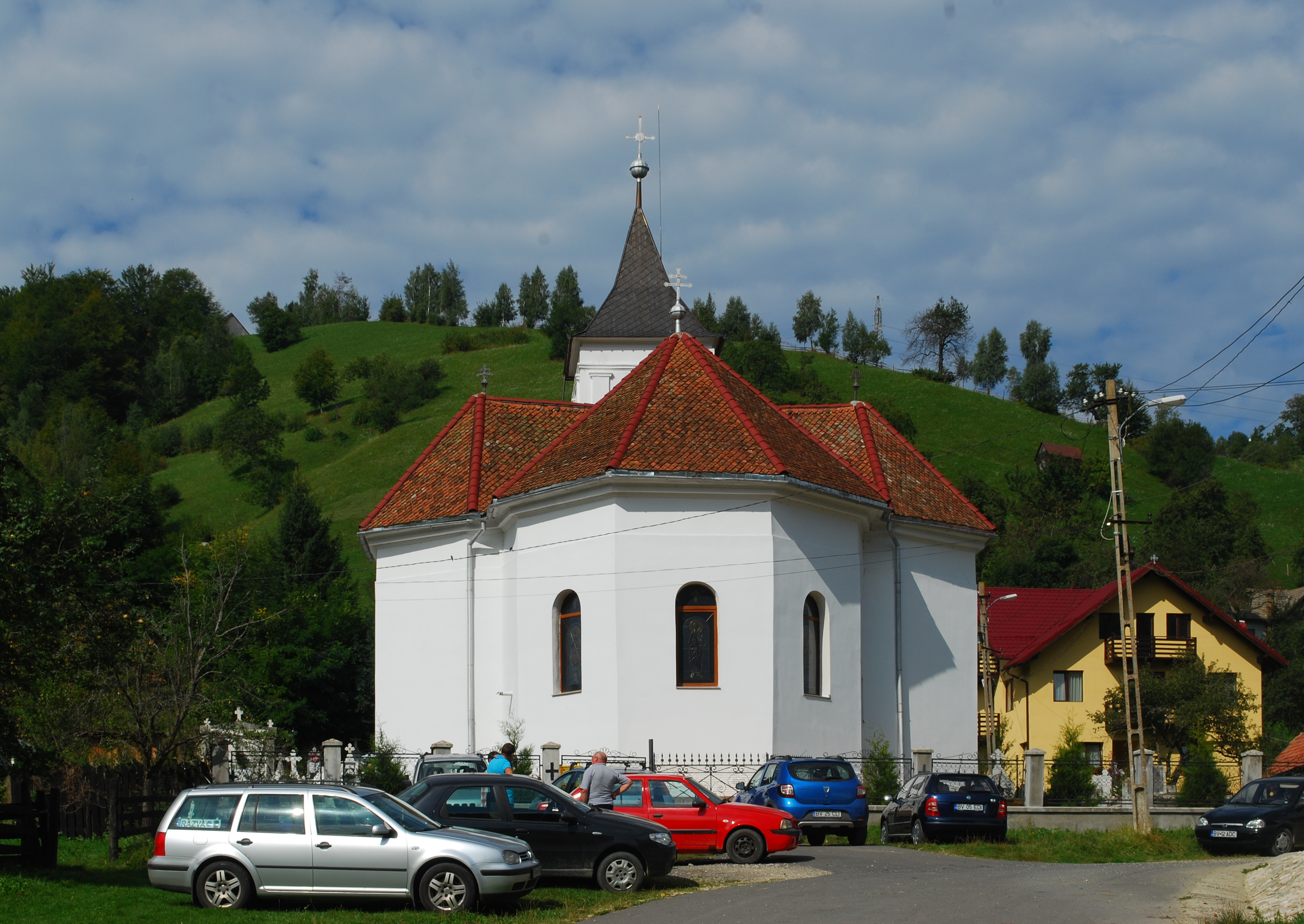 Saint Nicholas' church in Șimon, Bran Commune, Brașov County, RomaniaRomână: Biserica „Sfântul Nicolae” din satul Șimon, comuna Bran, județul Brașov, România